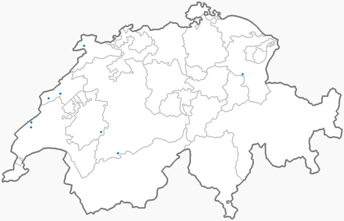 Approximate location of karst springs in Switzerland. The file shows karst springs are listed in the "List of karst springs in Switzerland" in the german Wikipedia. For questions and suggestions contact the author. State border Country border Karst spring